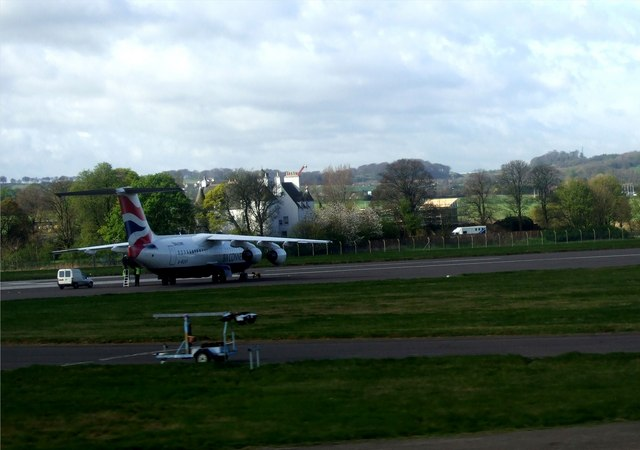 Castle Gogar With BA Connect plane G-BZAY being serviced at the south corner of Edinburgh Airport